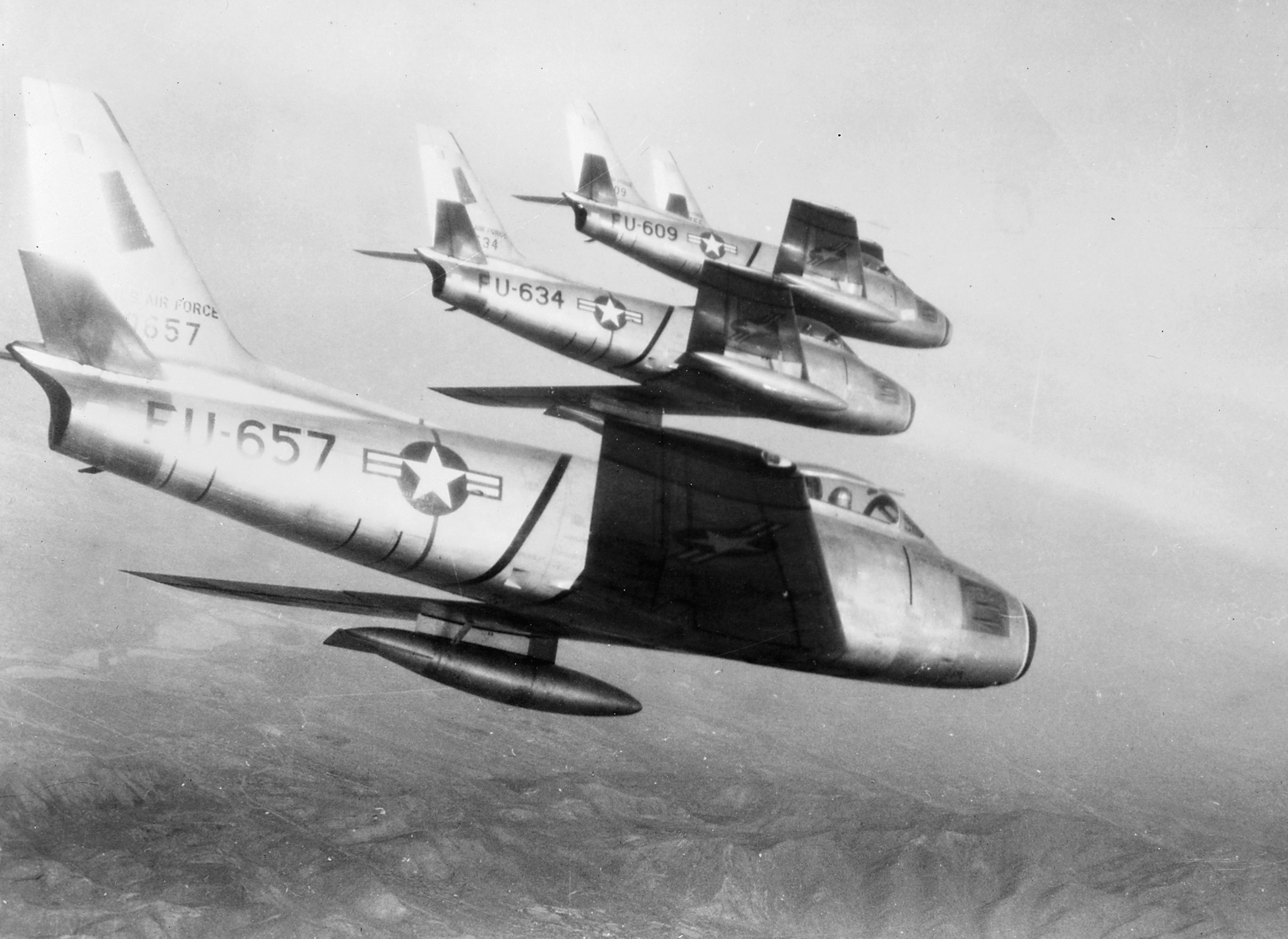 Four U.S. Air Force North American F-86E Sabre fighters over Korea in November 1952. Note that the first plane carries only a single drop tank.